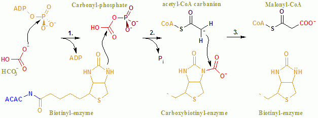 The reaction mechanism of ACAC(A,B). The color scheme is as follows: enzyme, coenzymes, substrate names, metal ions, phosphate, and carbonate.